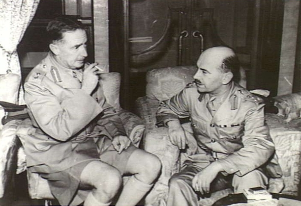 The first contingent of Canadian volunteers to arrive in Hong Kong was the largest single body of empire troops to land there. Canadian, British, Scottish and Indian regiments and the newly formed Chinese battalion form a formidable garrison and are evidence of the increasing strength of the empire in the Far East. The Canadian O.C. talks with Major General C.M. Maltby, G.O.C., Hong Kong.